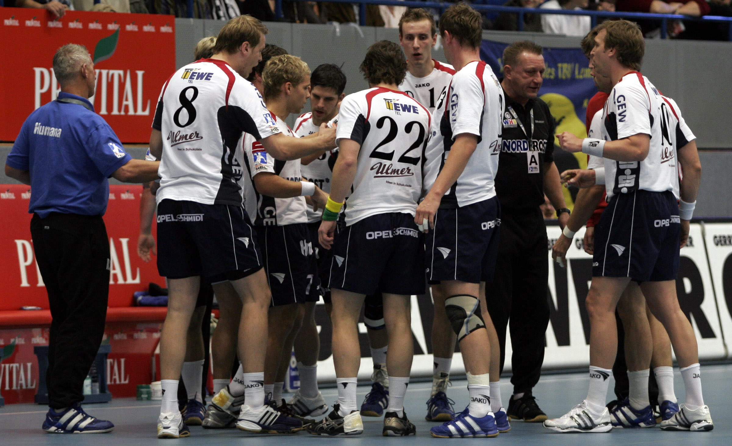 The team of Wilhelmshavener HV (Germany), during a team time-out in the Lipperlandhalle during the game TBV Lemgo vers. Wilhelmshavener HV on October 13th, 2007